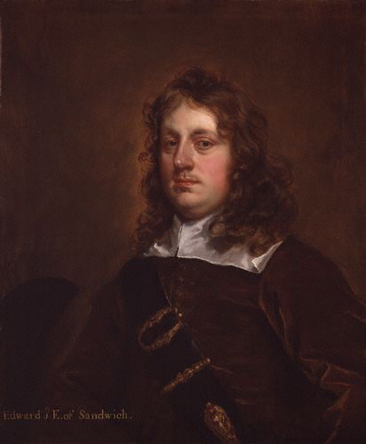 Edward Montagu, 1st Earl of Sandwich